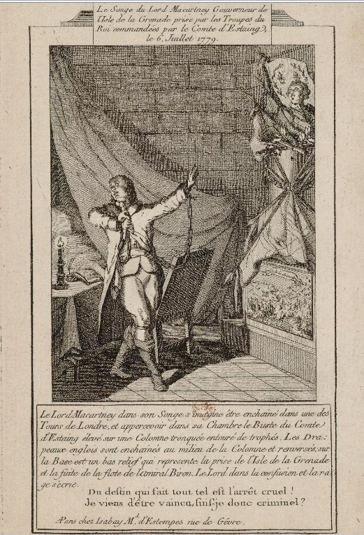 The dream of Lord Macartney, Governor of the Isle of Grenada attacked by troops of the King of France commanded by Count d'Estaing July 6, 1779. Print French propaganda during the War of Independence. "In a dream, Lord Macartney imagine being imprisoned in the Tower of London and perceive the bust of the Comte d'Estaing, surrounded by trophies. The English flags were overturned and chained over a bas-relief depicting the defeat of the Grenada and the fleet of Admiral Byron. The Lord exclaims : Fate does everything and his sentence was cruel: I am beaten, am I a criminal? "